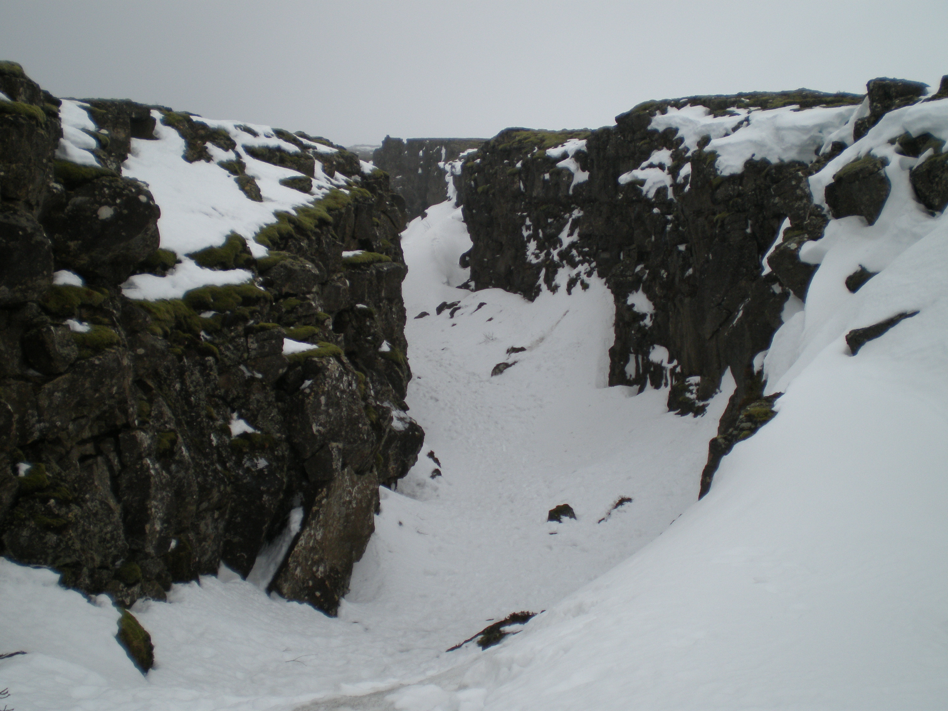 Fissure along the Mid Atlantic Ridge in Þingvellir National Park, Iceland